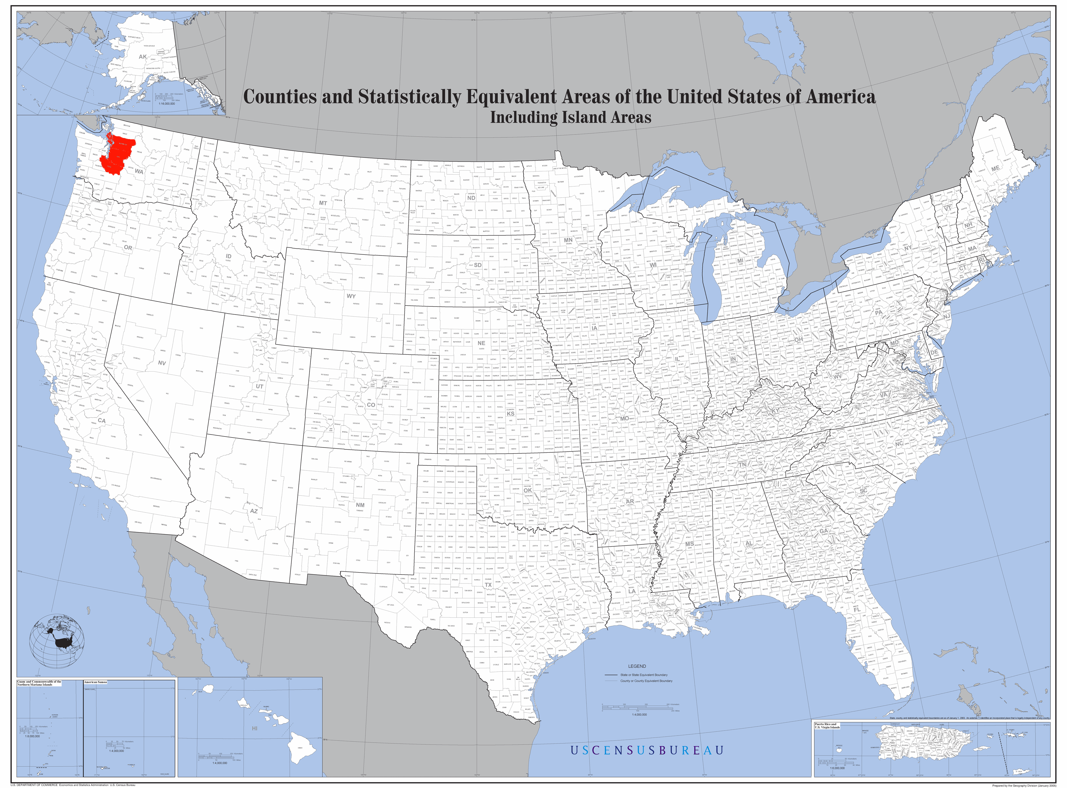 Edited Image:U.S. Counties.gif.